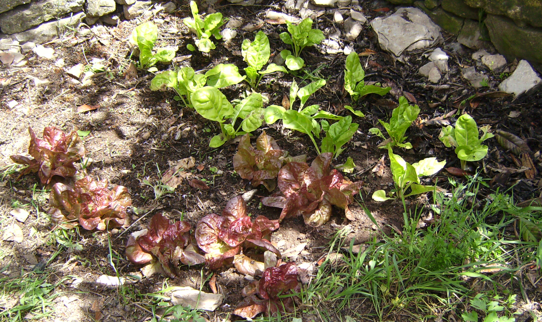 Market garden whith red lettuces and green beets in Castelltallat, Catalonia